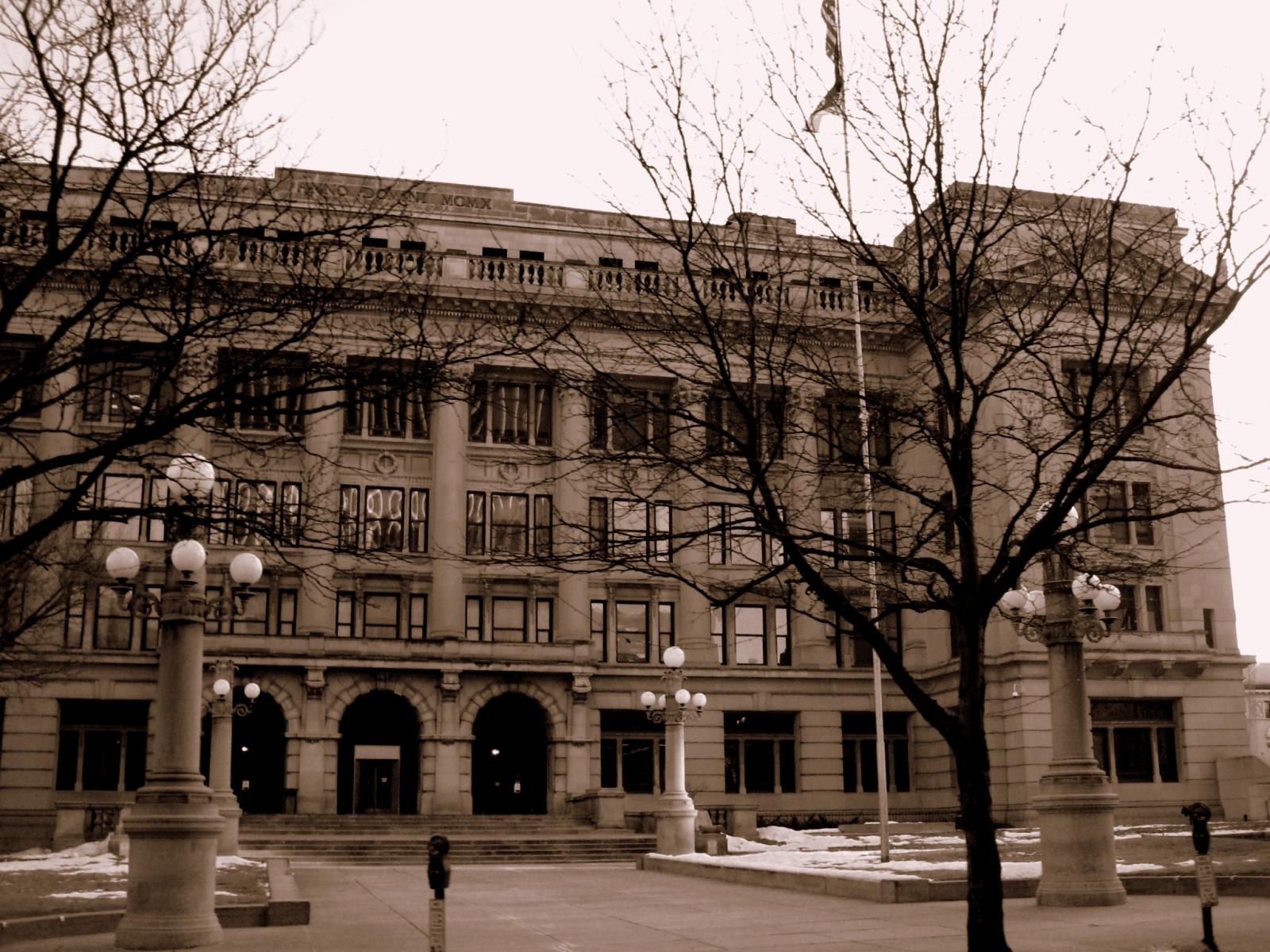 The present Douglas County Courthouse is located at 1700 Farnam Street in Omaha, Nebraska. Built in 1912, it was added to the National Register of Historic Places in 1979. Notable events at the courthouse include two lynchings and the city's first Civil Rights Era sit-in protest. Five years after it was opened, the building was almost destroyed by mob violence in the Omaha Race Riot of 1919. The 1912 building was designed in the French Renaissance Revival style by local architect John Latenser, Sr.. Decorative stonework covers the structure's exterior, and the building serves as a prominent landmark in Downtown Omaha.